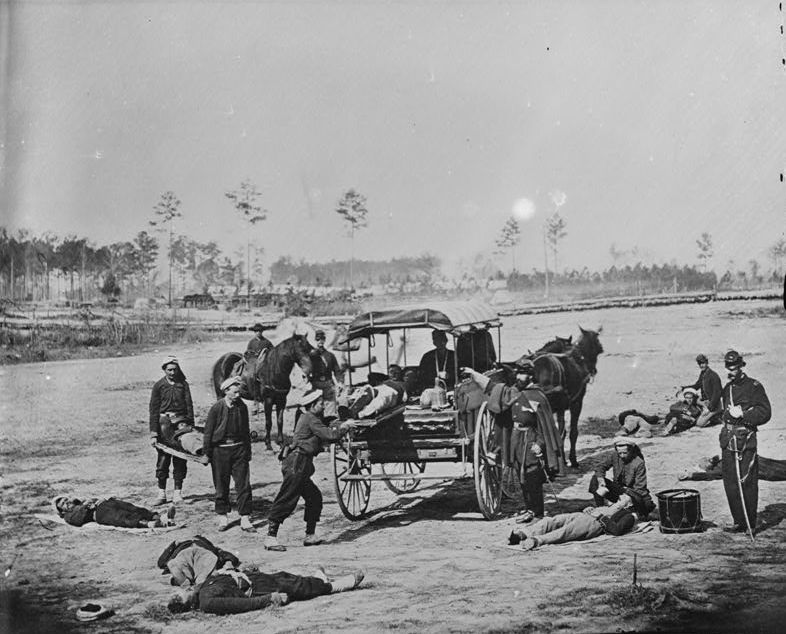 Ambulance Corps. Method of removing wounded from the field.